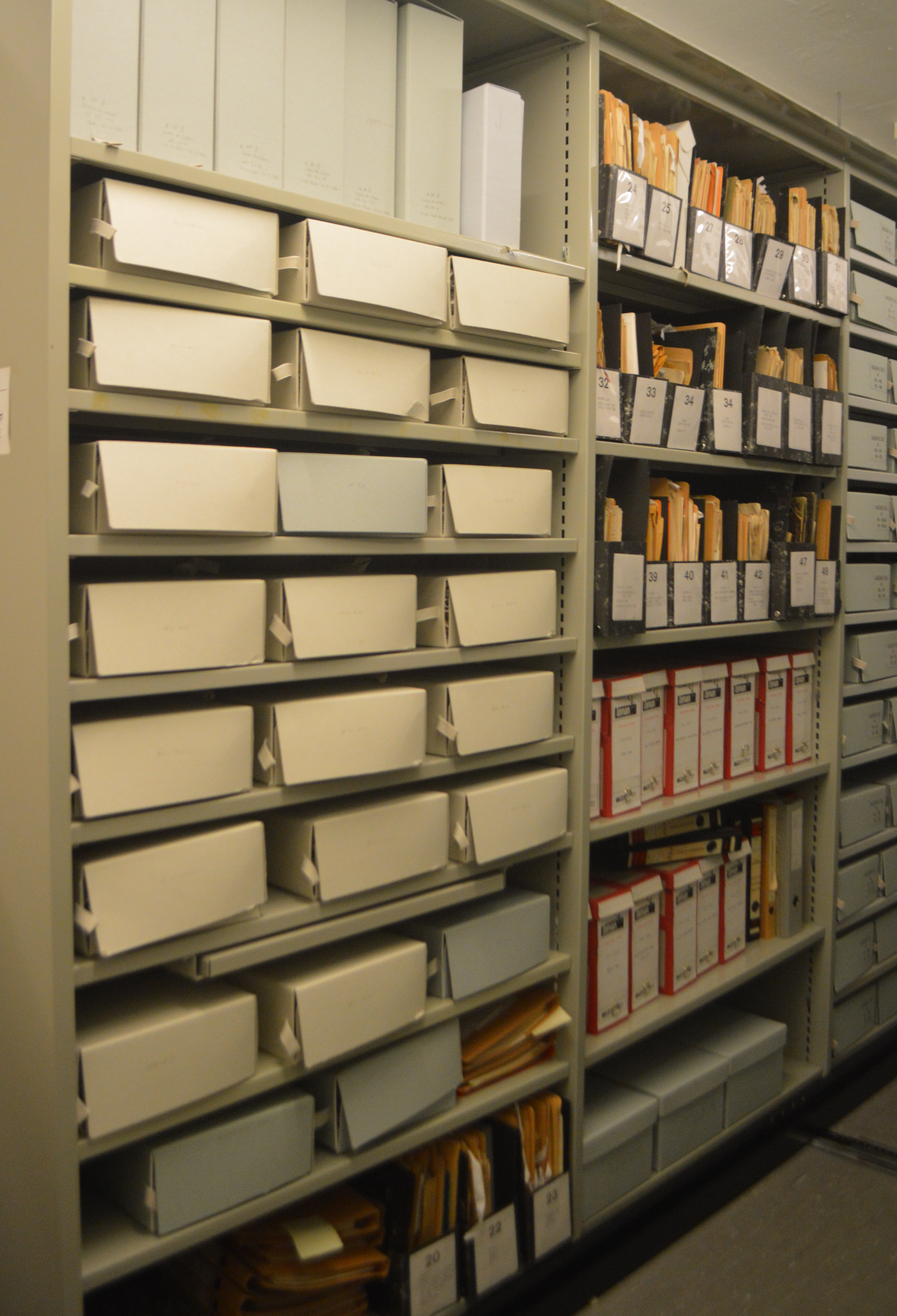 Shelves at the archives of the International Committee of the Red Cross (ICRC) containing pre-1914 records (up to the red file folders) at the headquearters in Geneva, Switzerland. - Photo taken and uploaded in the context of the International Archives Week 2020 of Wikimedia Switzerland, Austria and Germany and the Association of Swiss Archivists.